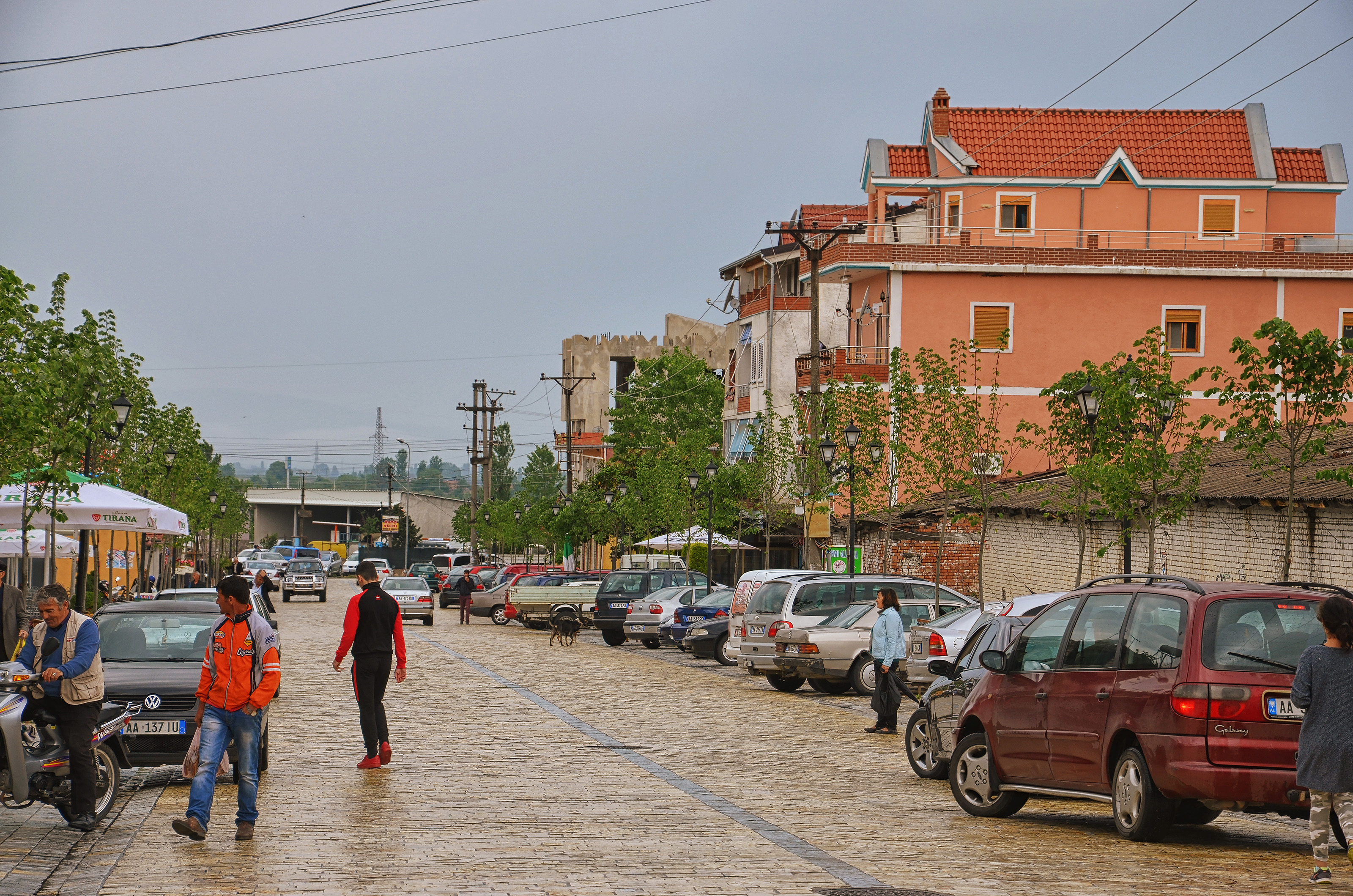 The pedestrian street in the center of Vau i Dejës, Albania